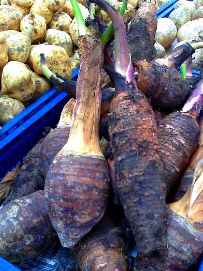 Corms of two forms of talas